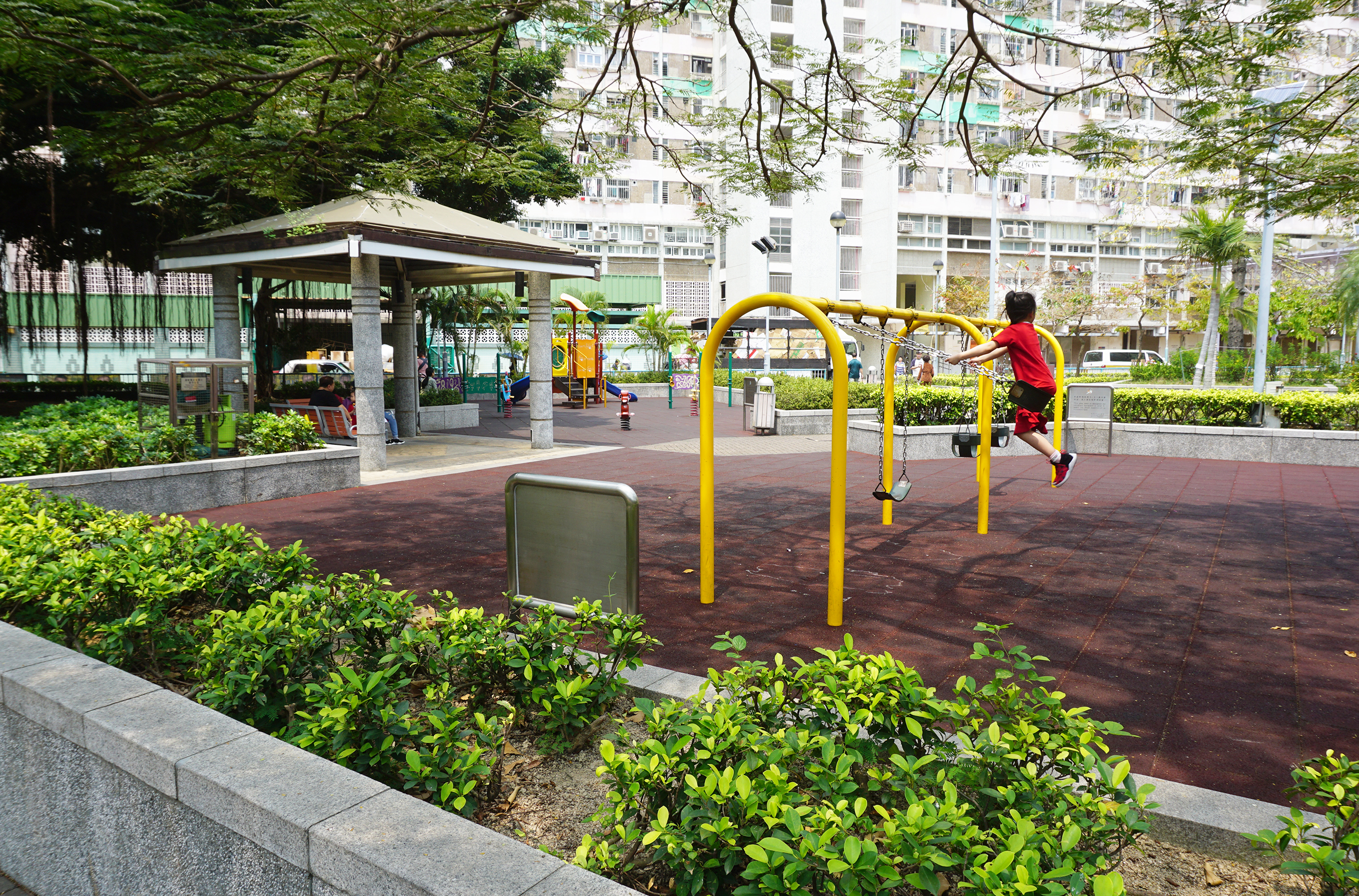 Sham Shui Po Park in Sham Shui Po, Hong Kong.